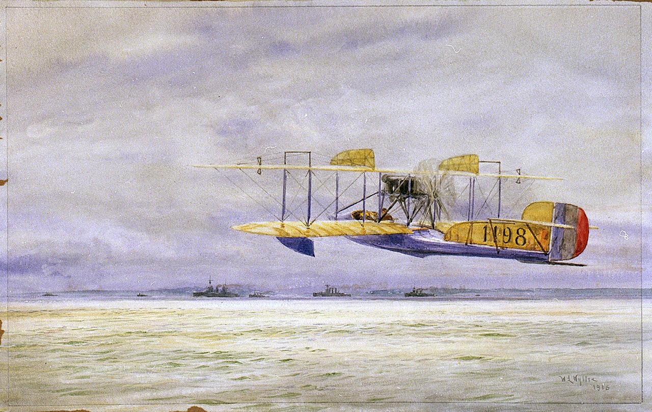 Photograph of a painting of Royal Naval Air Service Seaplane 1198